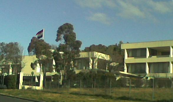 Embassy of Egypt in Canberra